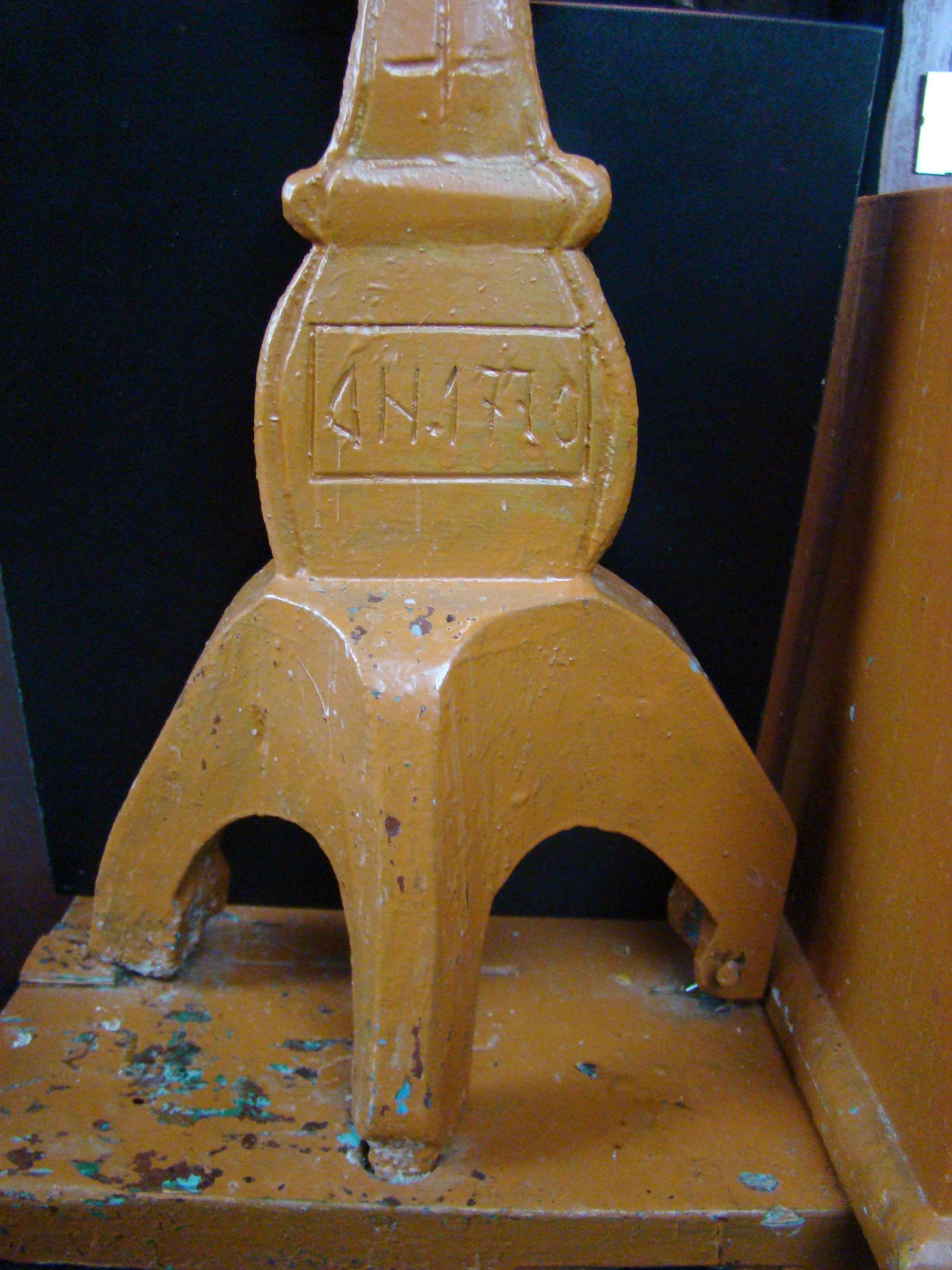 Wooden church in Baia, Arad county, Romania